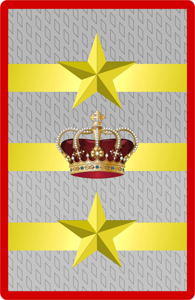 insignia for the sleeves of the rank of "tenente generale capo di SM Esercito" of the Italian Army (1915-1918)